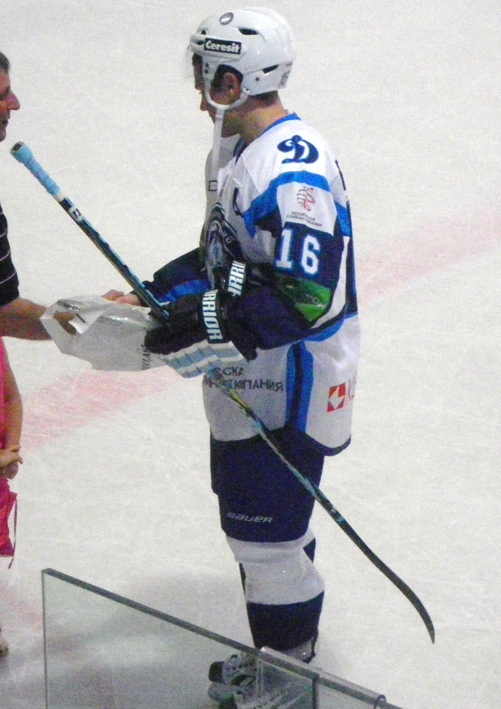 Geoff Platt, canadien ice hockey player with Dinamo Minsk.